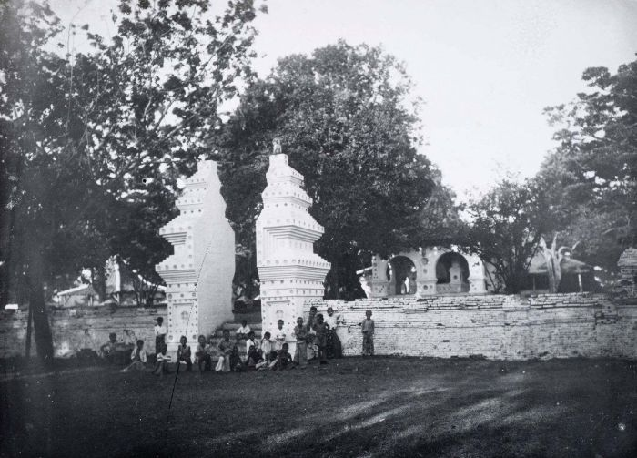 Children in front of the gate of the Kanoman kraton, Cheribon